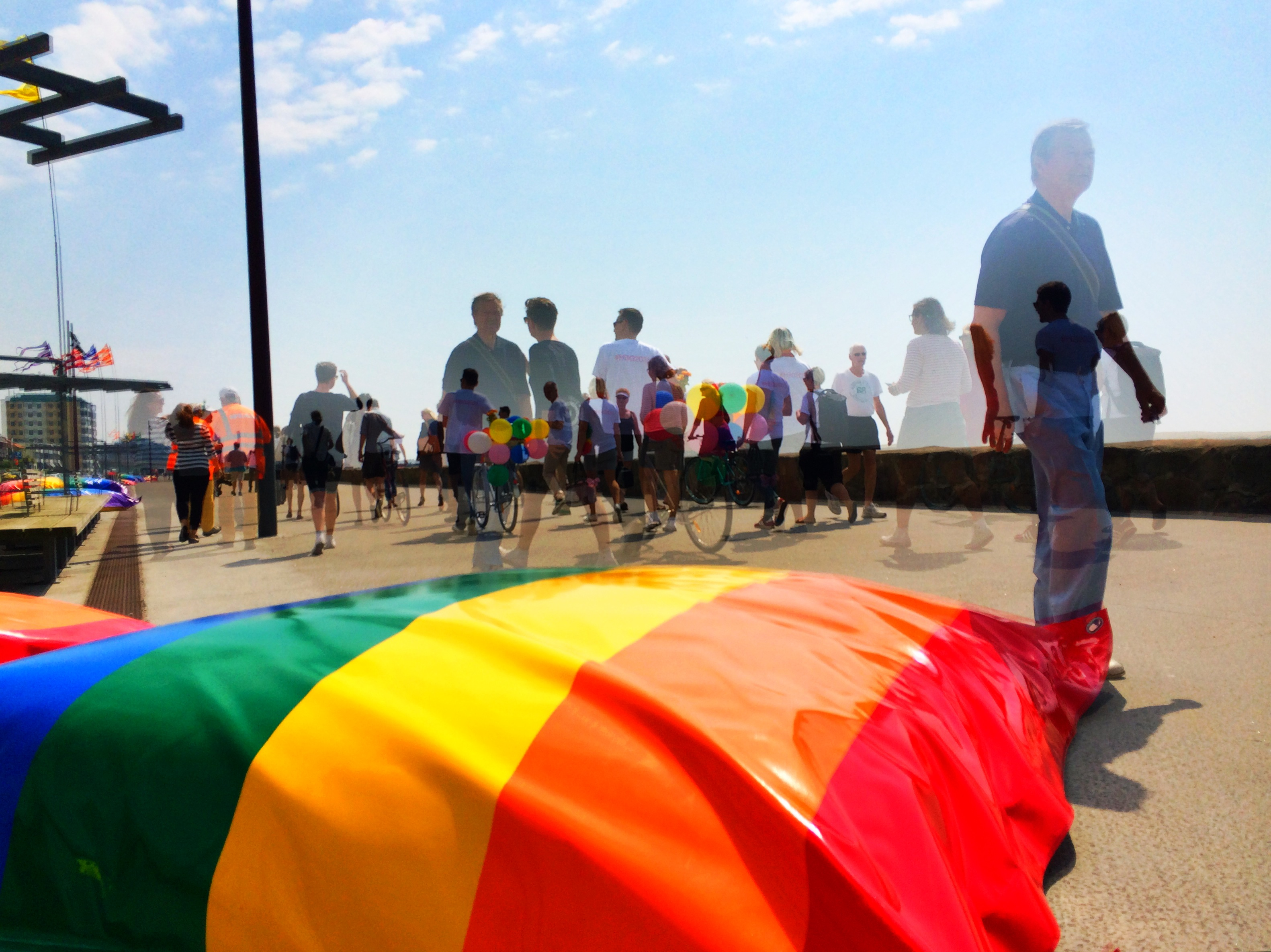 Location: Sweden, HelsingborgEvent type: Everyday lifeDate or year: 2016